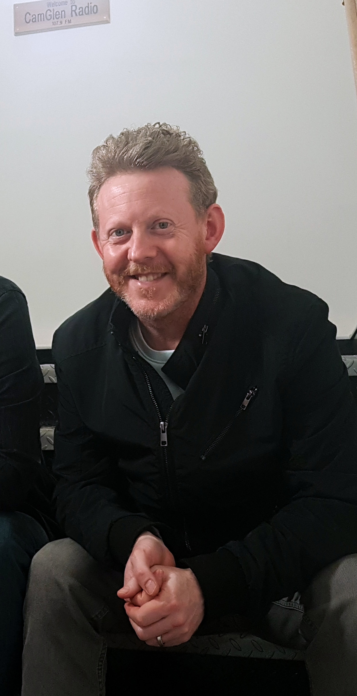 A picture of Colin McCredie, taken at CamGlen Radio